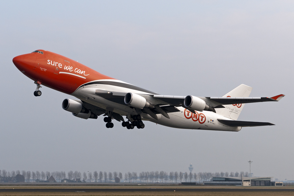 Nice visitor for Amsterdam, take off before even reaching half of the runway. In the background the fire brigade station at the polderbaan. Boeing 747-4HAF/ER/SCD Amsterdam-schiphol [EHAM / AMS] 20-02-2011